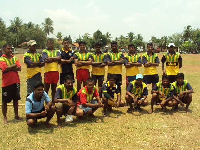 යක්කඩුව විර ගාමිණි එල්ලේ කණ්ඩායම